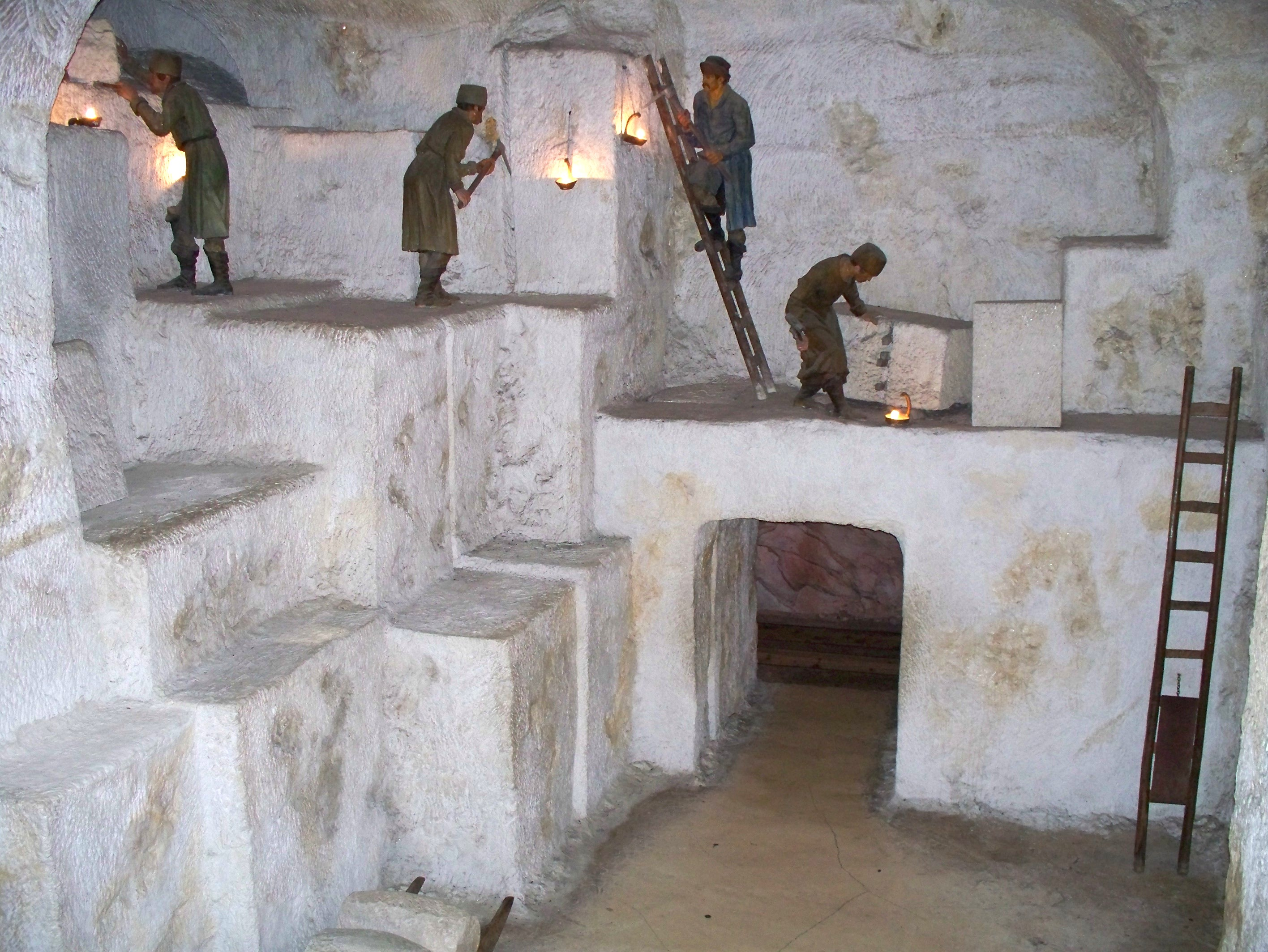 A salt mine in the Deutsches Museum in Munich